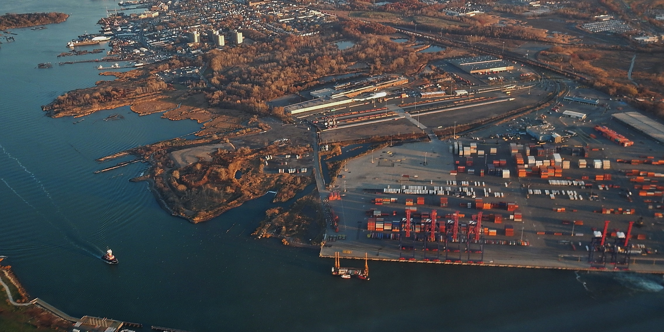 Flight to Newark Liberty International Airport (EWR) with view over Kill van Kull and Arthur Kill